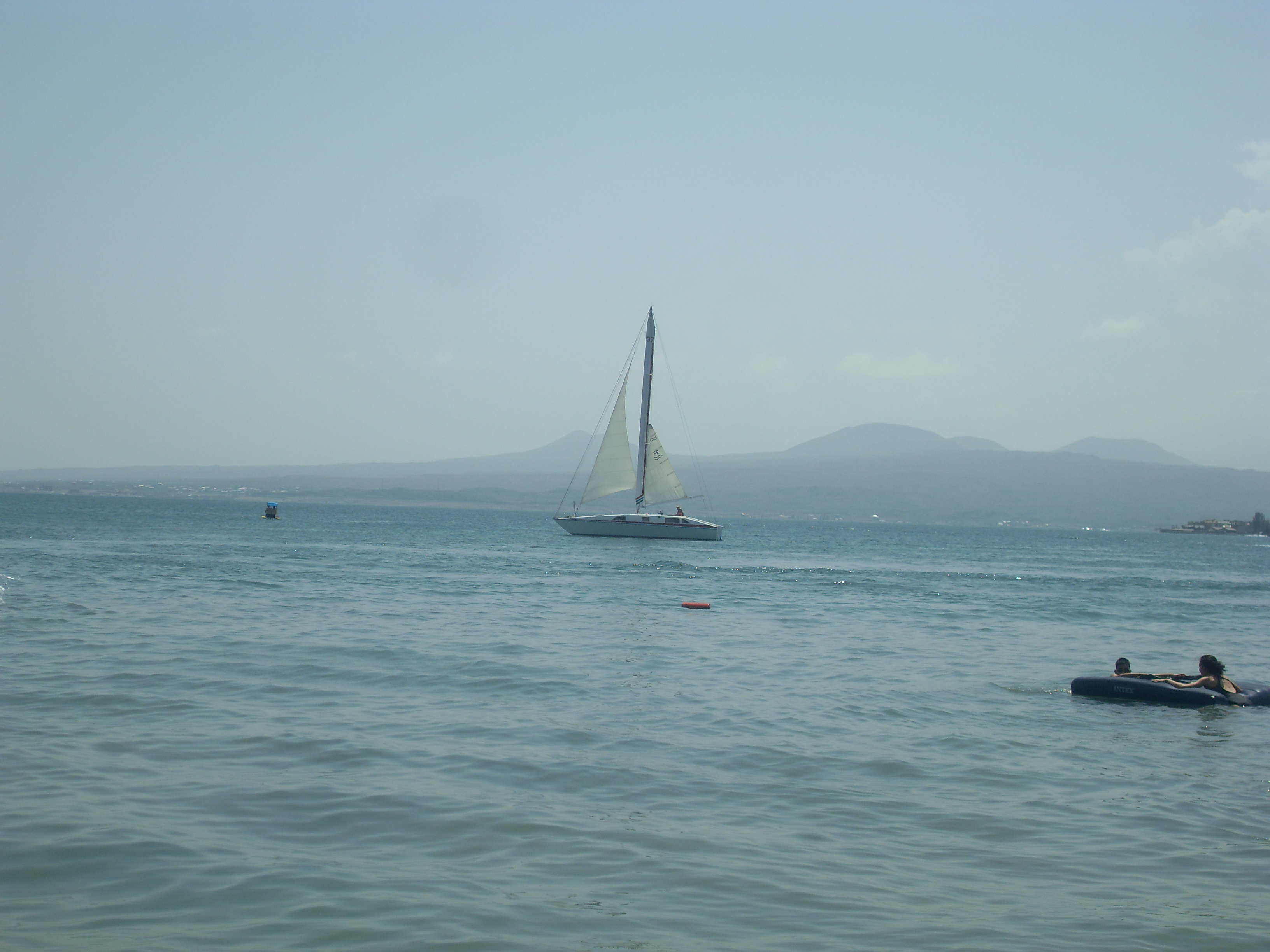 Sevan National park, Armenia